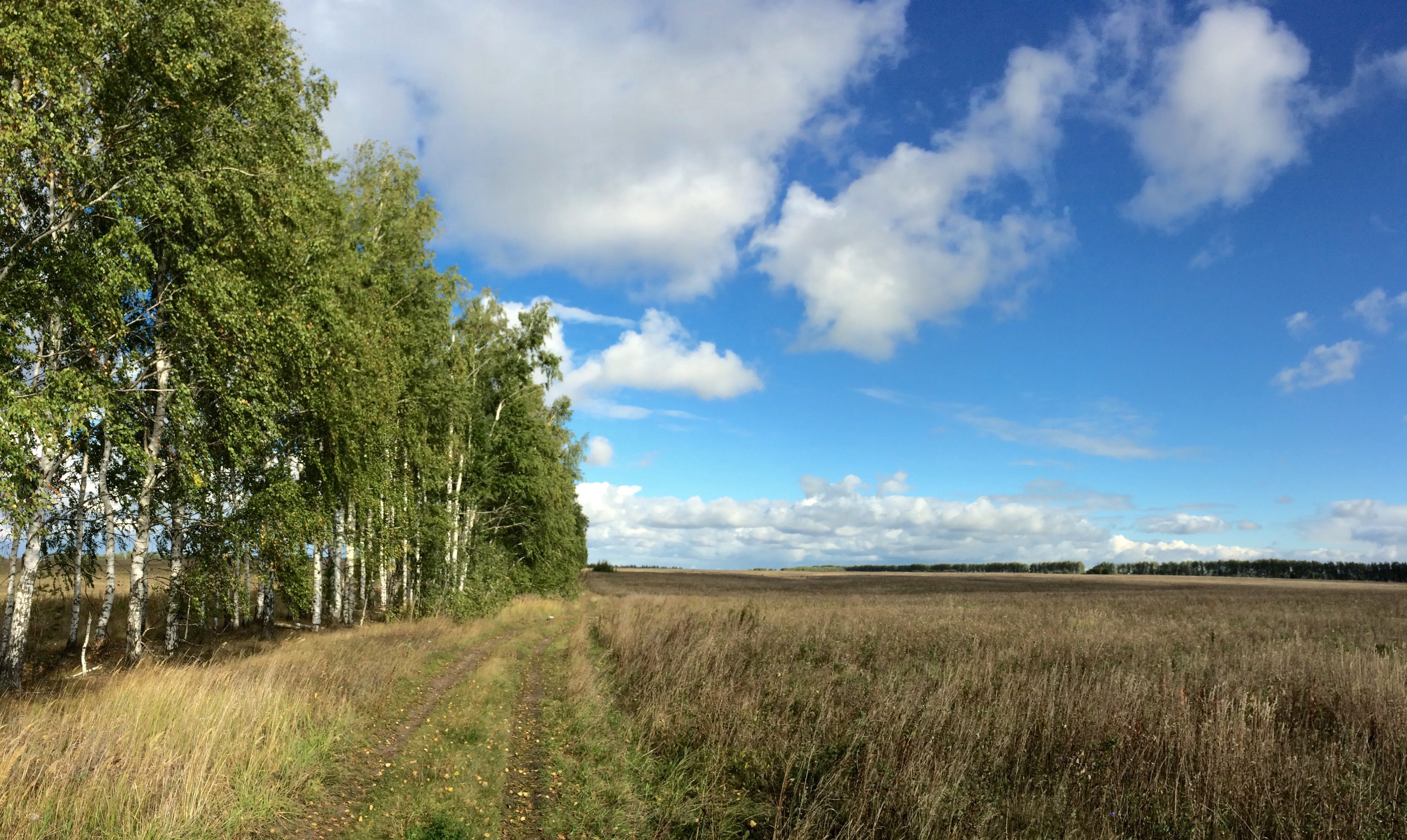 Fields near the village of Zarubkino (Зарубкино), Zubovo-Polyansky District, Mordovia, Russia